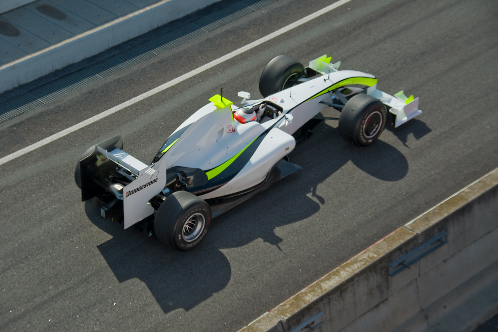 Barrichello, Barcelona, Brawn BGP 001 Nikon D90 + Sigma 18-200 DC OS HSM 1/1600s - F/5 - 65mm - ISO220